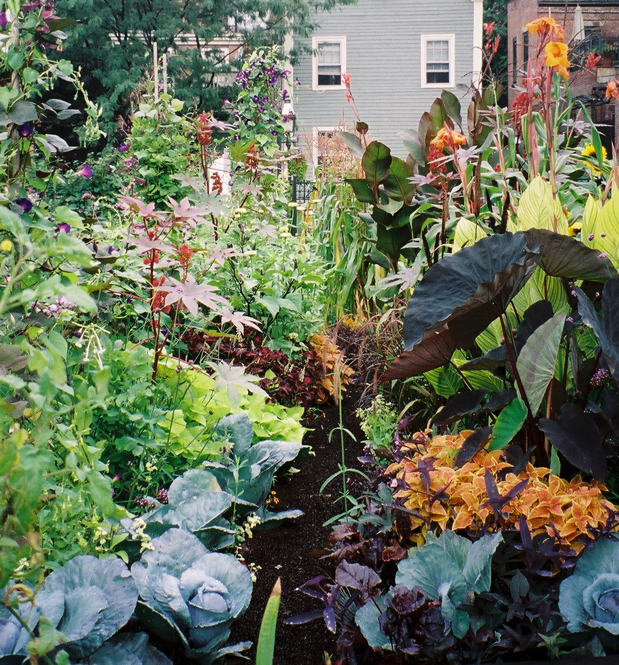 Community garden plot with vegetables and ornamentals